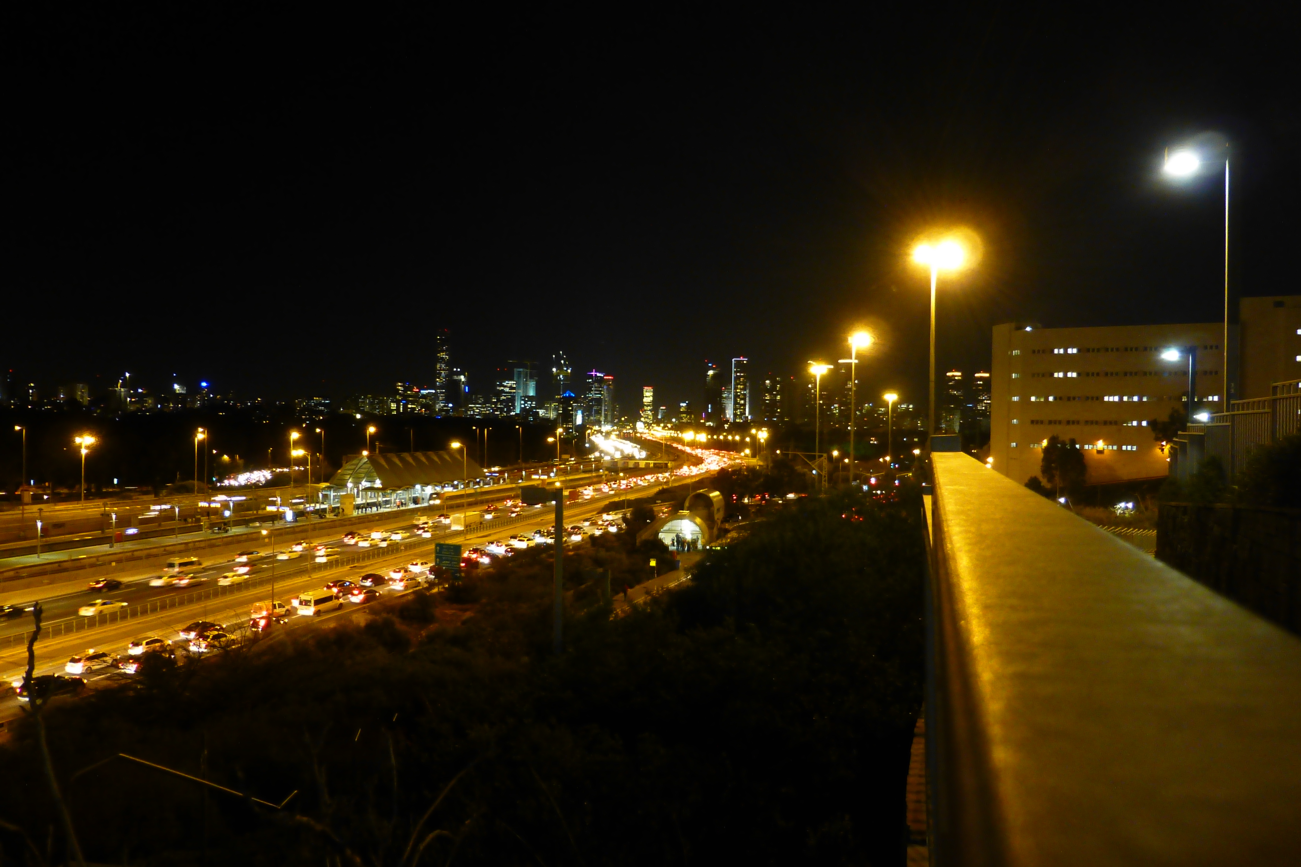 Night in Tel-Aviv 2015